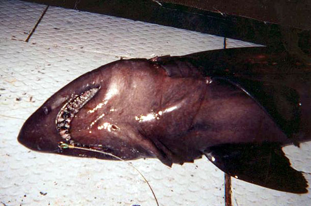 Bigeye sand tiger shark (Odontaspis noronhai) caught off Hawaii.